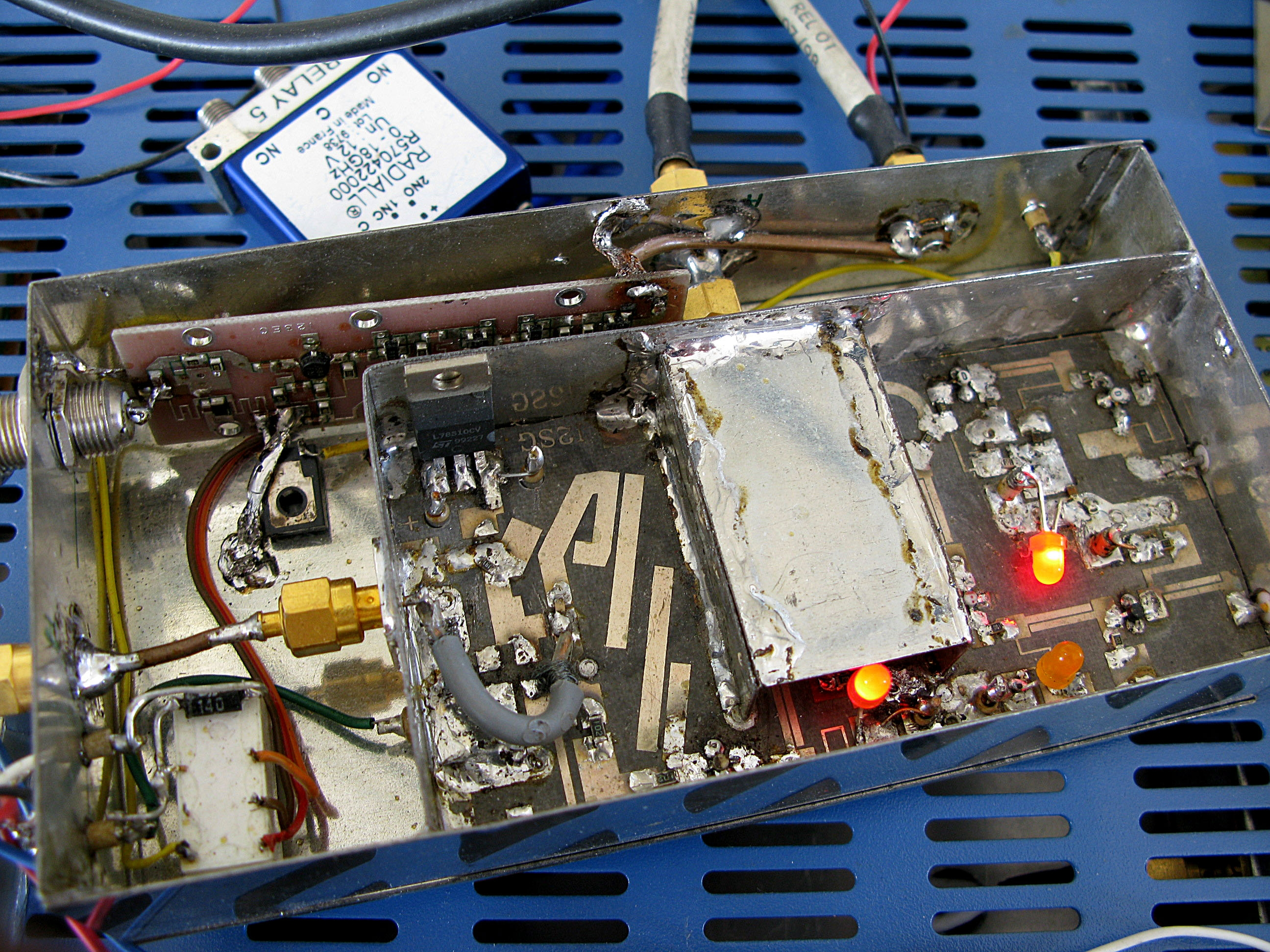 Transverter Amateur TV on 5.7Ghz. Made by F5ELY, 2007. (A transverter is a radio frequency device that consists of an upconverter and a downconverter in one unit. Transverters are used in conjunction with transceivers to change the range of frequencies over which the transceiver can communicate.)